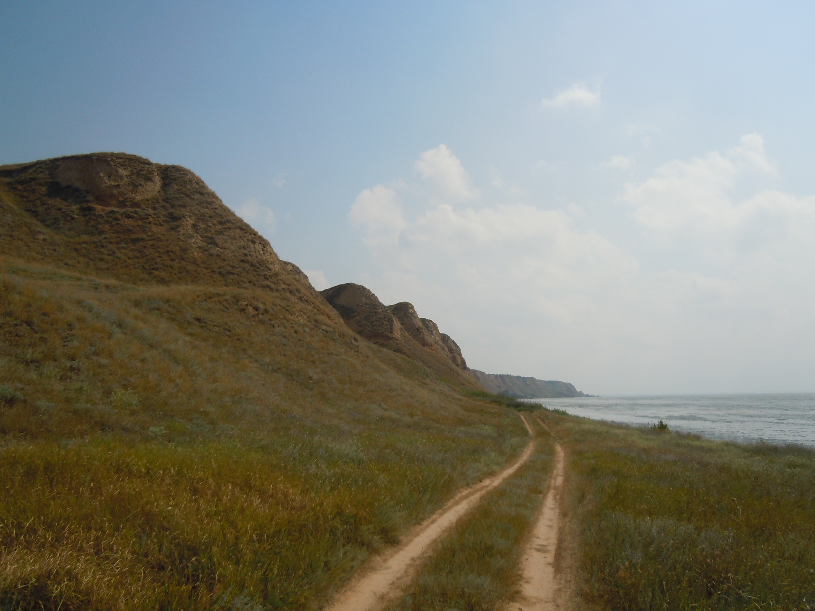 Dnieper Estuary coast near Ochakiv